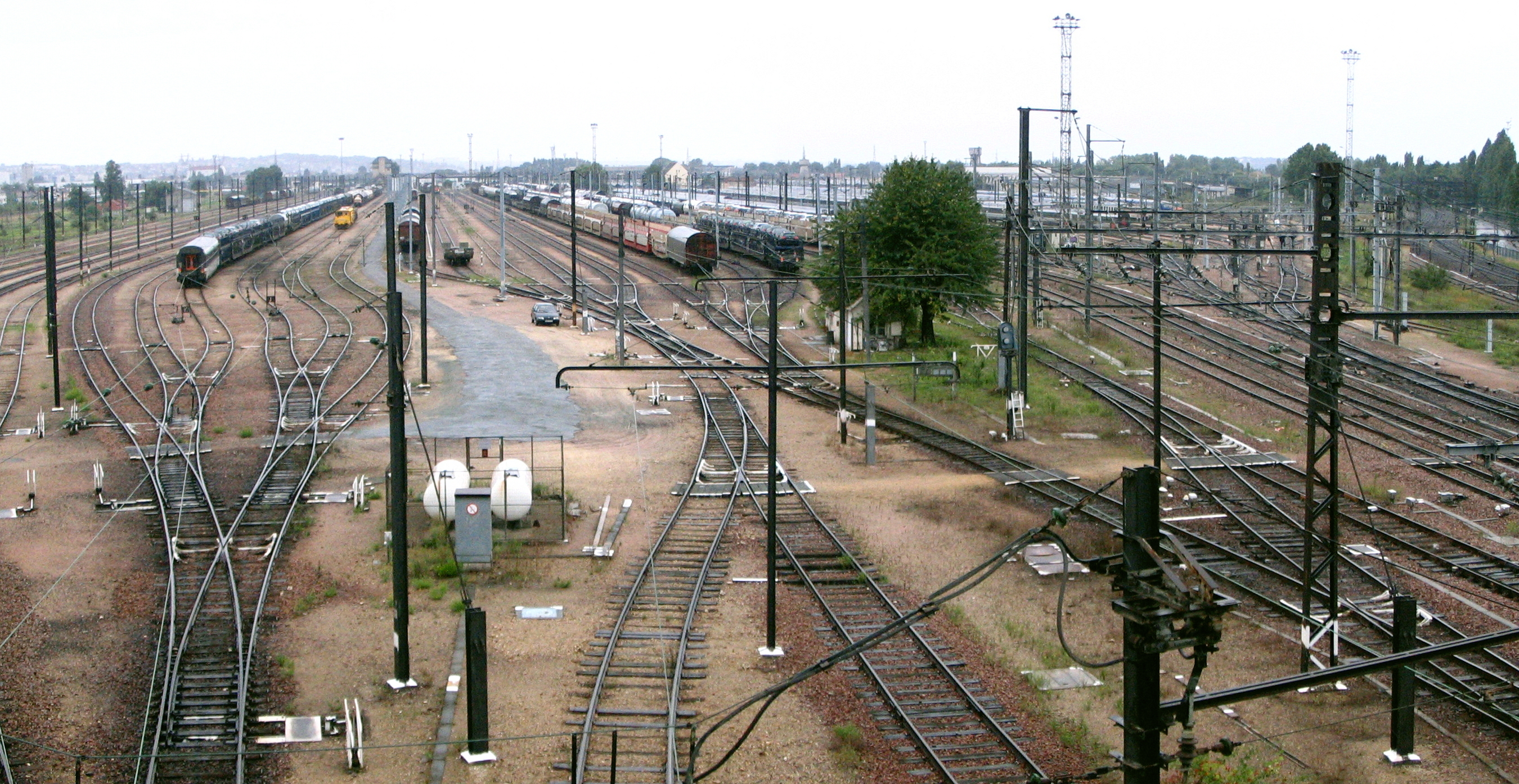 Villeneuve-Saint-Georges's classification yard, in Val-de-Marne, France.